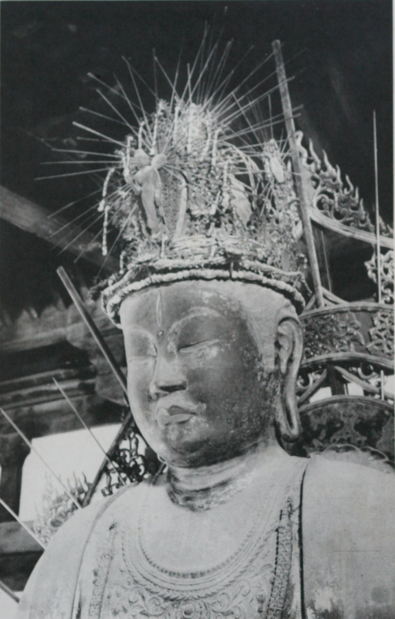 Fukū Kensaku Kannon (Amoghapāśa), bust detail, lacquerHollow dry lacquer, gold leaf, silver small statue attached to the crown, total 362cm height, 8th century, Todaiji Hokke-dō, Tōdai-ji, Nara, Japan